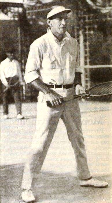 American film director William C. deMille playing tennis, page 76 November 1921 Photoplay.